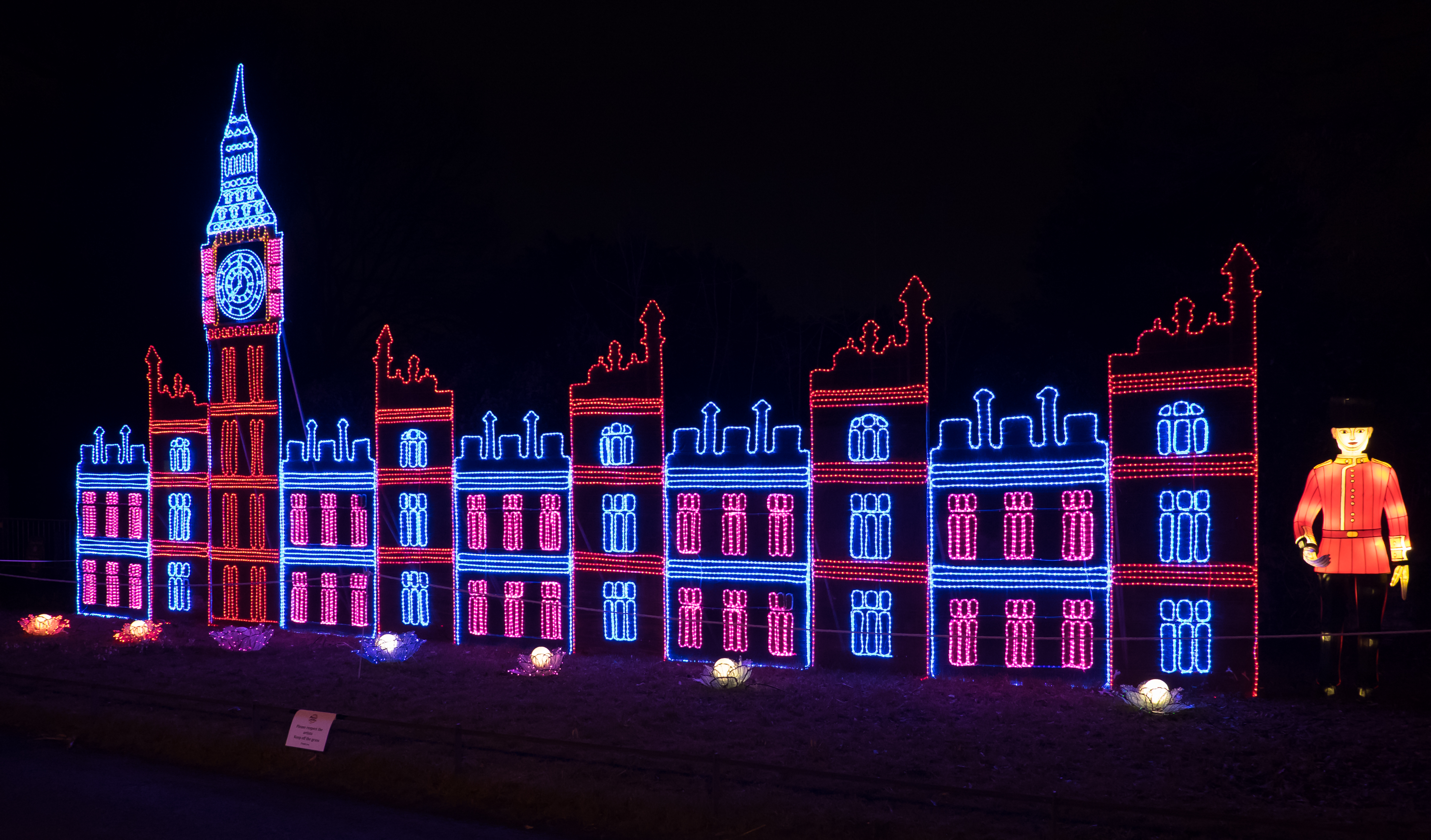 The Palace of Westminster at the 2017 Magical Lantern Festival London, The festival, held to celebrate the Chinese New Year of the Rooster 2017, was held in the gardens of Chiswick House, London, between 19 January 2017 and 26 February 2017.